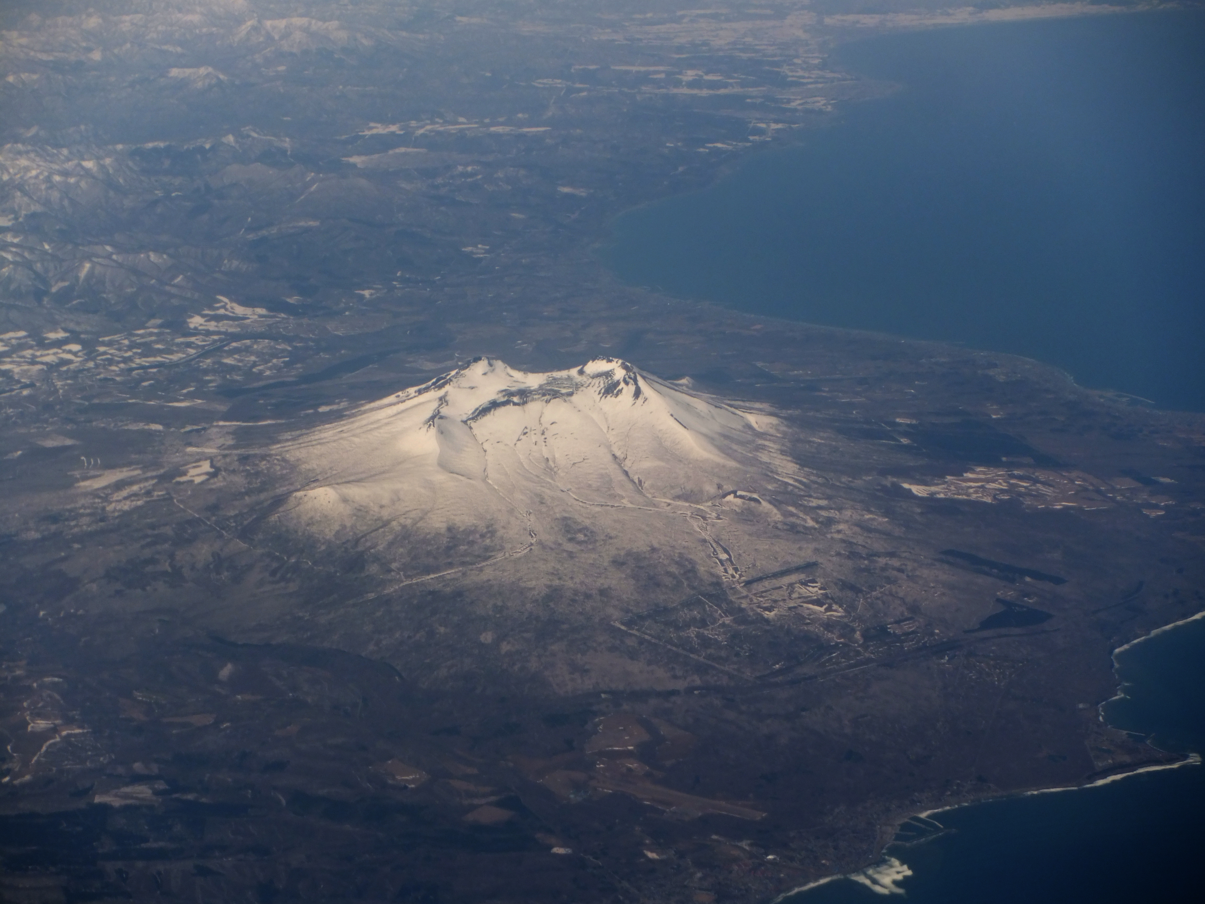 Hokkaido Koma-ga-take seen from the ESE.